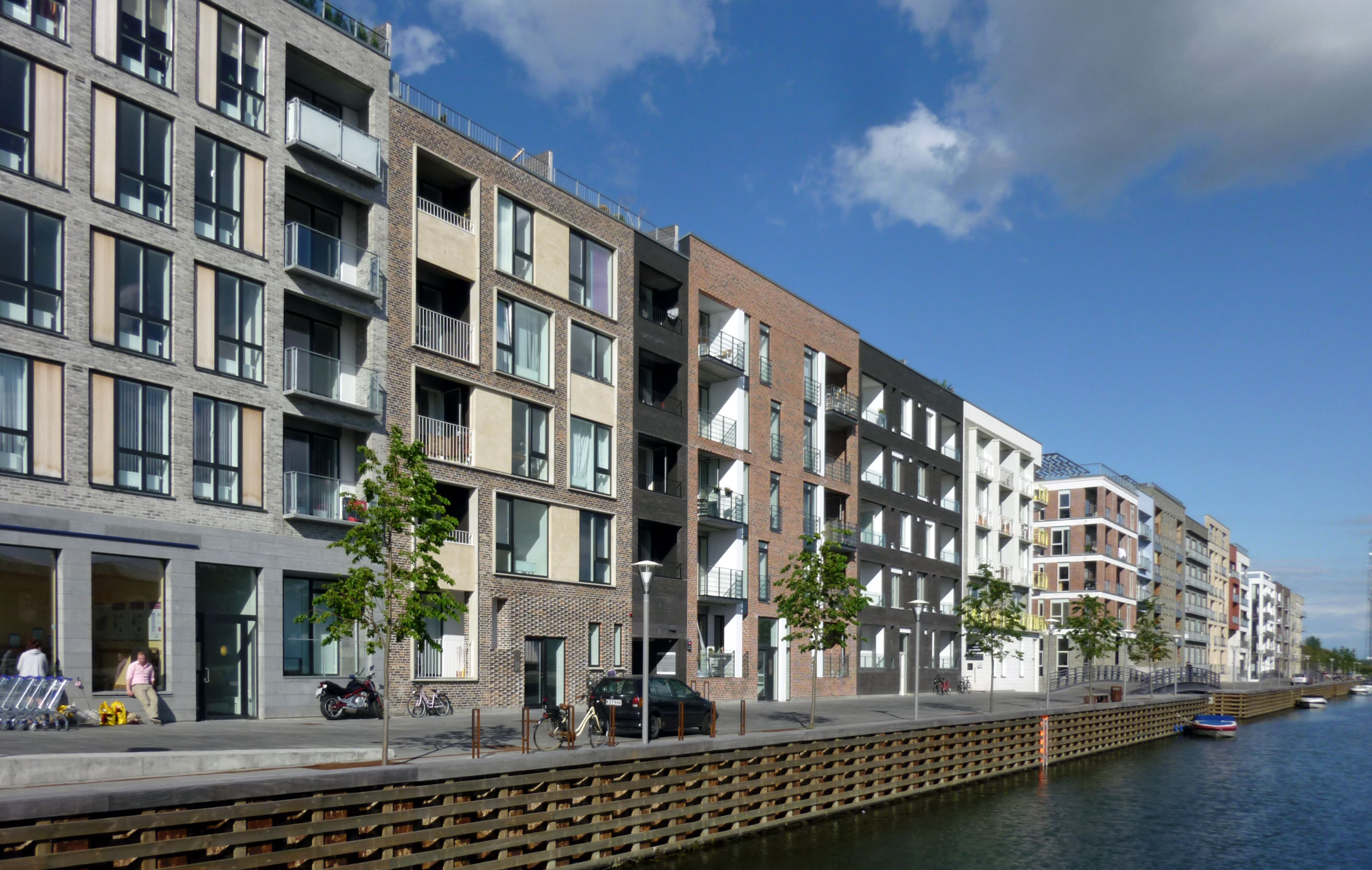 The Sluseholmen Canal Distrist in Copenhagen, Denmark